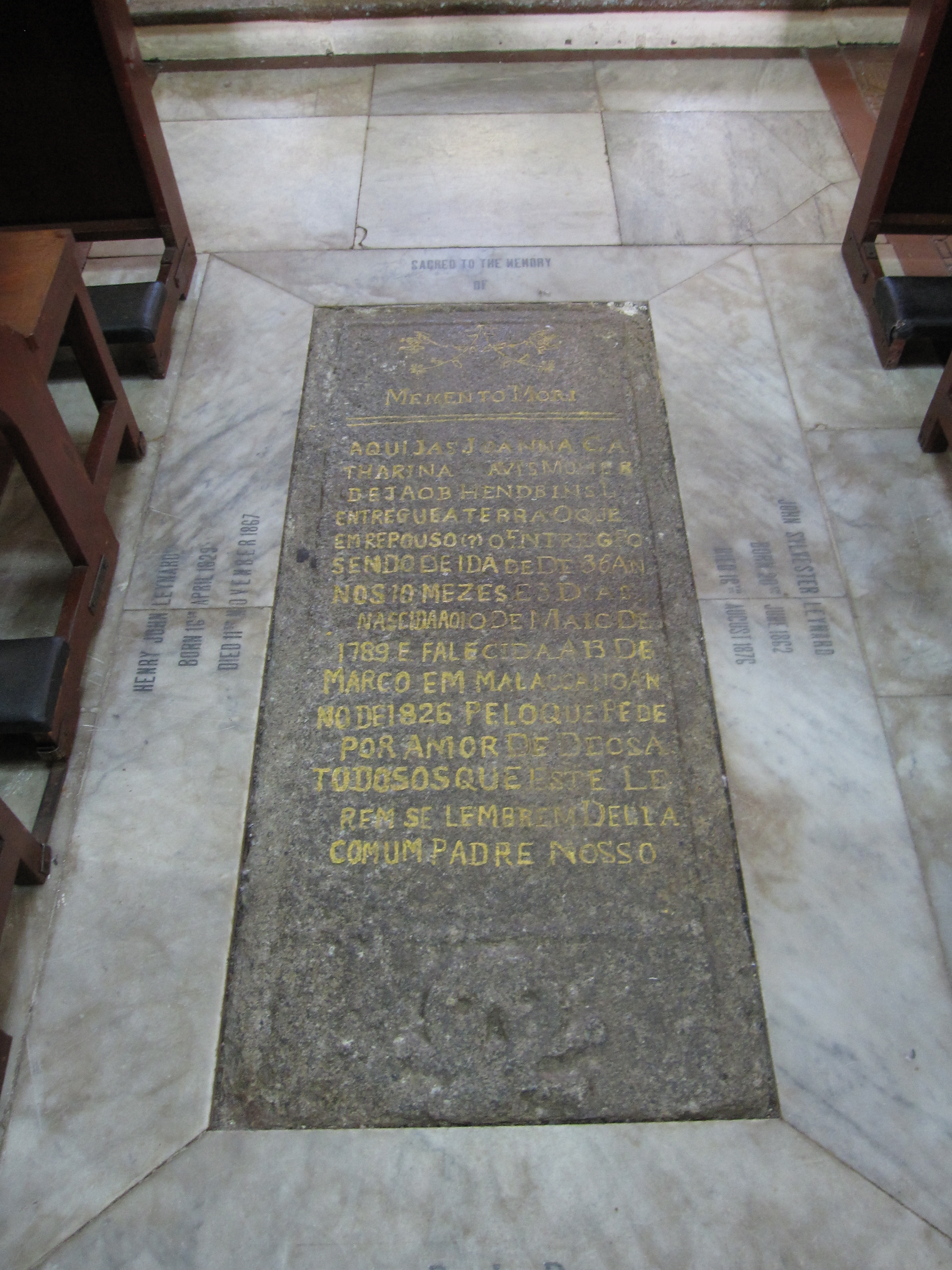 Old Portuguese memorial stone in the Catholic St. Peter's church in Melaka, Malaysia.